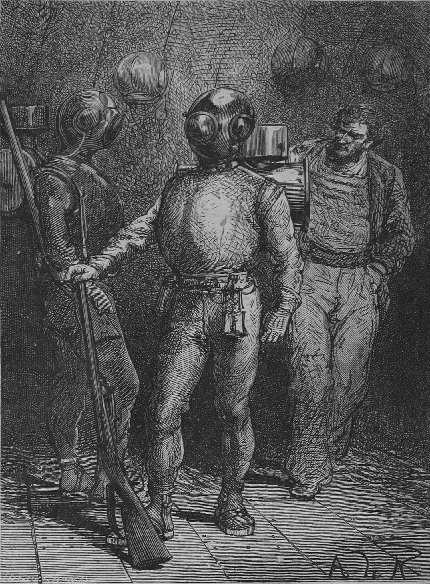 Image from scan vingtmillelieue00vern_orig_0130.jp2